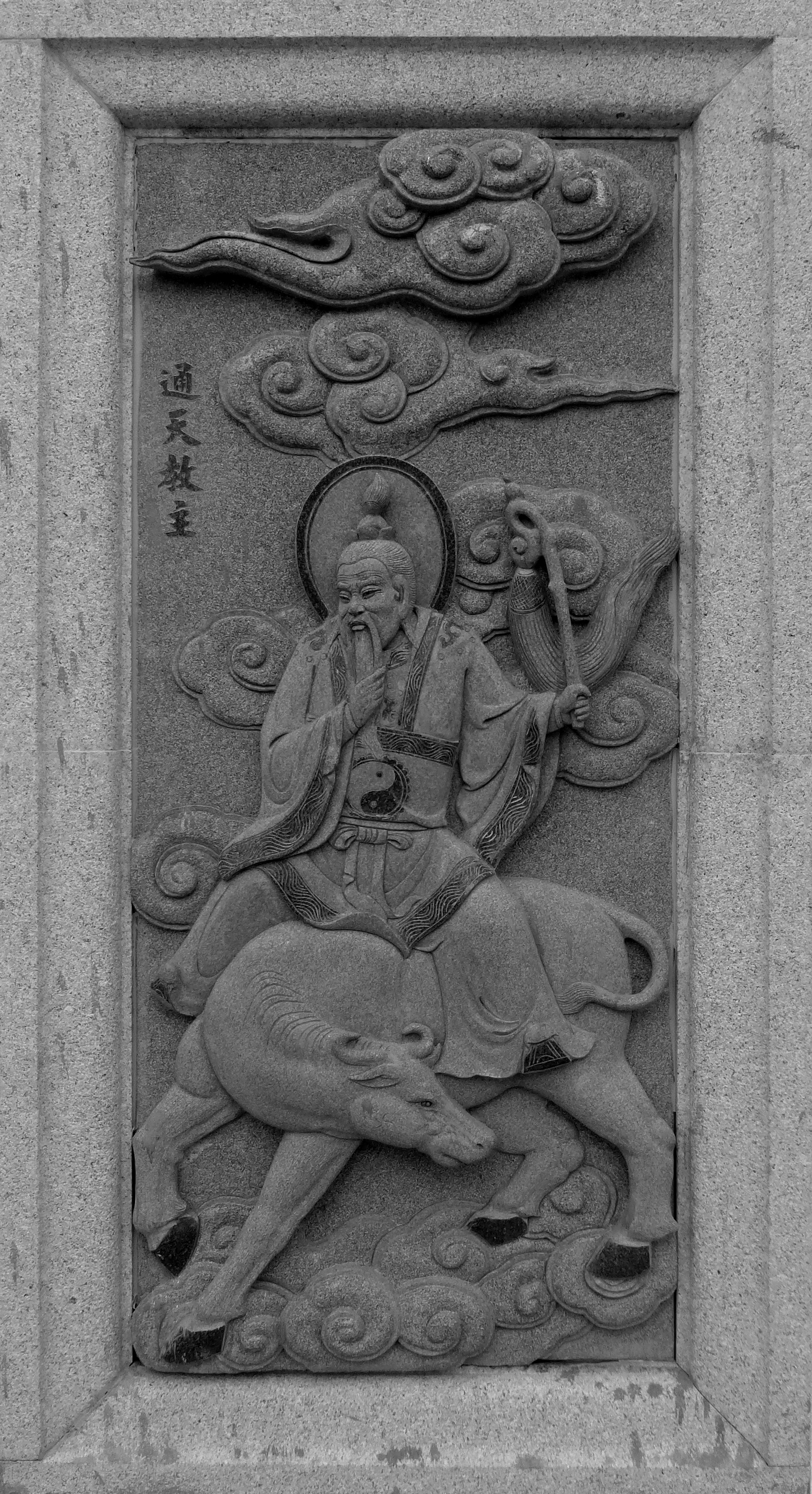 053 Tongtian Jiao Zhu, Investiture of the Gods at Ping Sien Si, Pasir Panjang, Perak, Malaysia Photograph from the Ping Sien Si Temple in Perak, Malaysia taken by Anandajoti.